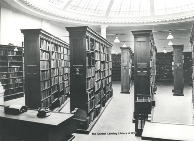 Inside Stockport Central Library, Stockport